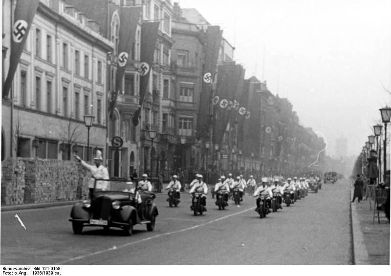 Information added by Wikimedia users.*